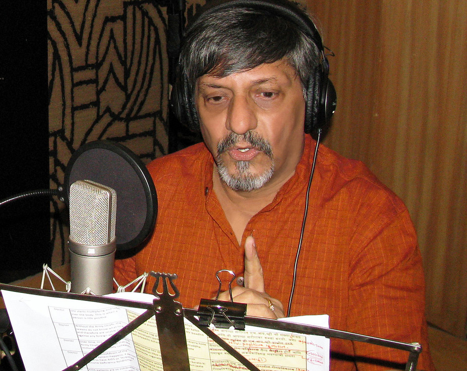 Amol Palekar at TeachAIDS recording session in 2009